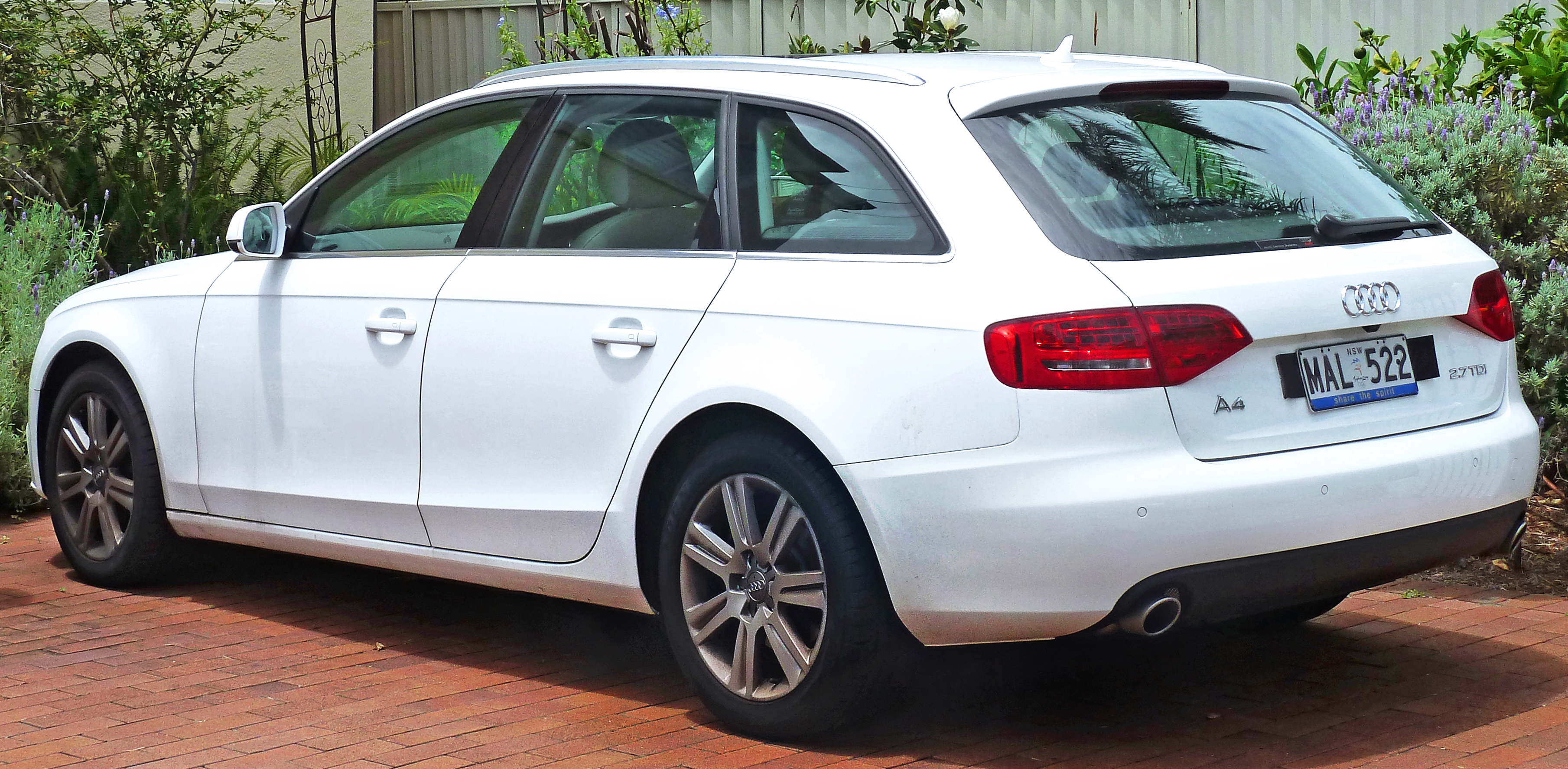 2009 Audi A4 (8K) 2.7 TDI Avant. Photographed in Dover Heights, New South Wales, Australia.